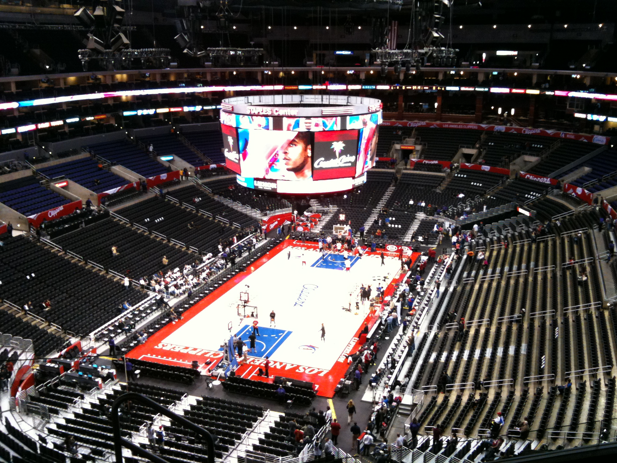 Staples Center during a Clippers game